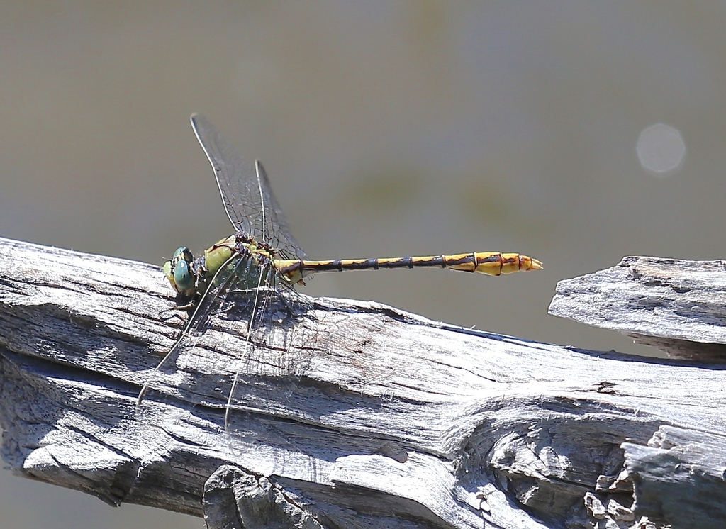 Arizona Snaketail (Ophiogomphus arizonicus), New Mexico, US